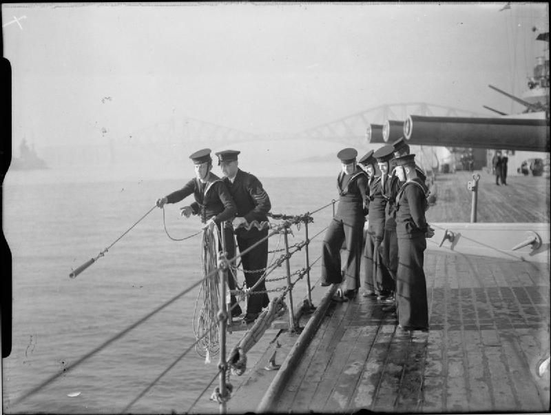 The Royal Navy during the Second World War On board HMS RODNEY "Boys" receiving instruction on how to "heave the lead". The lead weighs 10 to 14 pounds and the picture shows a Boy standing in the "chains" about to heave the lead. Going in and out of harbour a Leadman is always in the chains taking soundings which he calls out to the bridge. The Forth railway bridge can be seen in the distance.